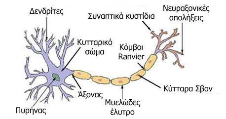 Schematic diagram of a neuron, labels translated in Greek